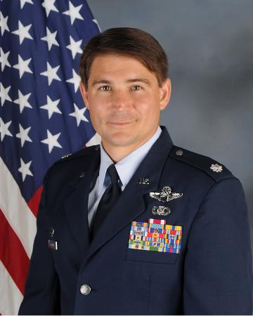 Official portrait of Colonel John Boccieri.